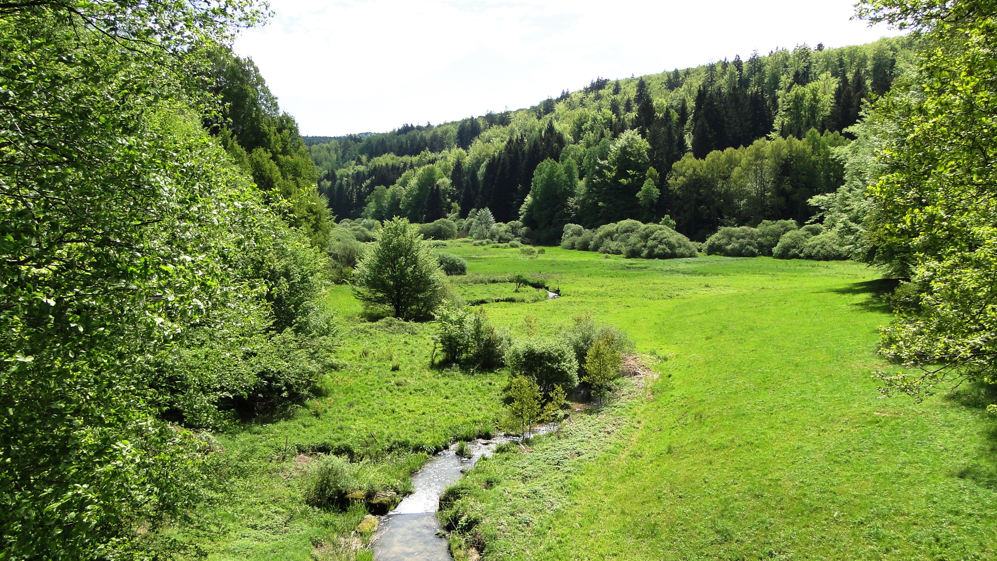 a view of the Hafenlohr stream near its confluence with the Steinbach, nature preserve since 1988, Hochspessart, Lower Franconia, Bavaria, Germany